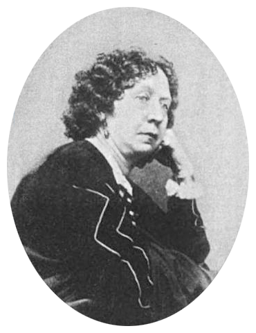 Portrait of Fanny Fern